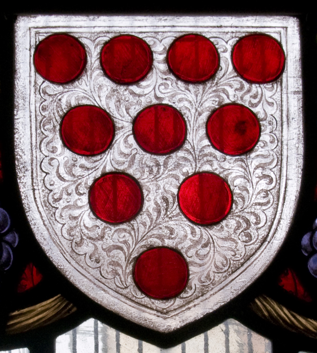 Diapering (decorative lines) of the field on the shield of the Anglican Diocese of Worcester in the Chapel of the Holy Cross, Stratford-upon-Avon, England.